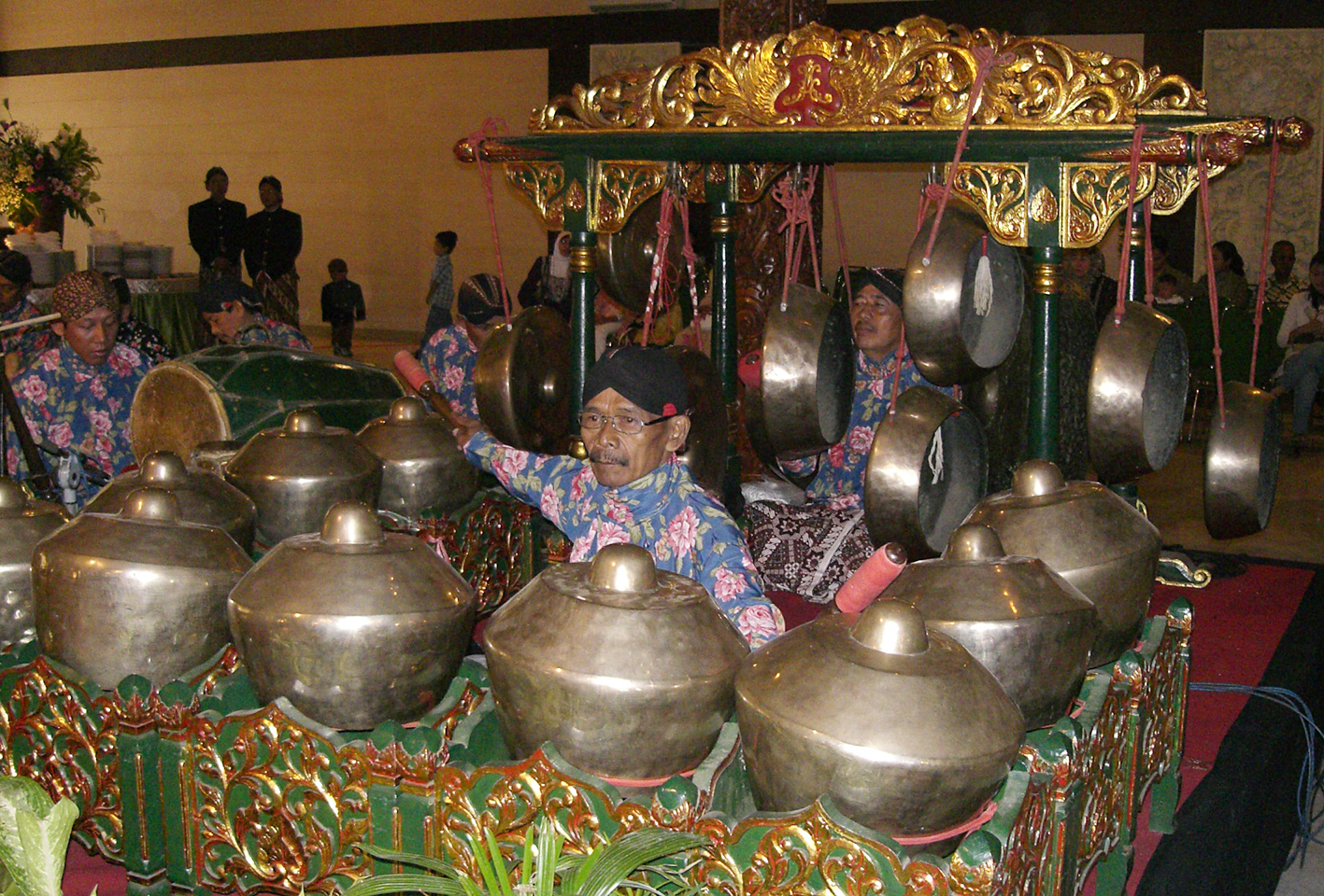 A gamelan player playing large bonang. Gamelan Yogyakarta style during a Javanese wedding in Taman Mini Indonesia Indah.